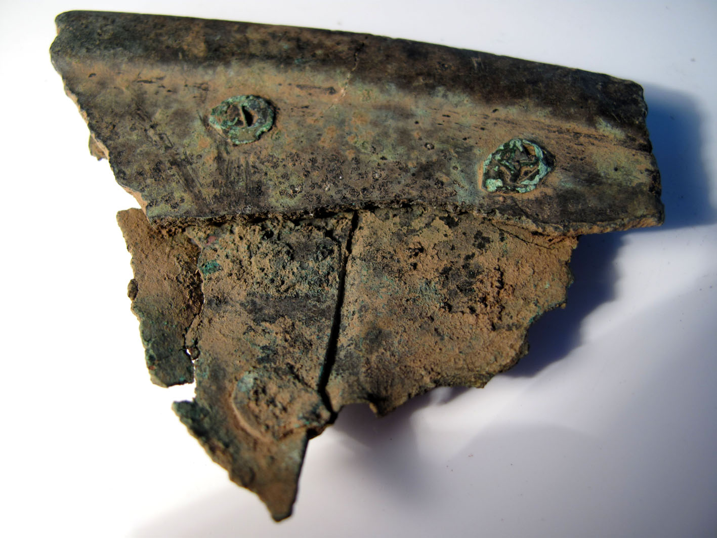 Nine fragments of sheet copper alloy vessel of probable late medieval to post medieval date (1350 - 1650). The fragments are much worn and irregular in shape; three are joined by metal rivets and another two show evidence of copper alloy rivets and associated holes. At least one fragment is from the rim of a vessel and it is likely that the fragments represent several different vessels. The three joined sheets are riveted together by rivets formed from rolled copper alloy sheet which has been fixed by hammering the ends. The body of the vessel seems to have been constructed first whilst the rim is attached afterwards using the same technology. Most of the vessel fragments are a mid black (soot stained?) green colour with an abraded patina which has corroded in places. A direct parallel has not been found, but these sheet metal fragments are common within medieval assemblages. The largest conjoined fragments measure 73.0mm length, 57.0mm width, is 5.4mm thick at rim, 1.6mm thick at body and weighs 46.55 grams. All the fragments have a bulk weight of 110.23 grams